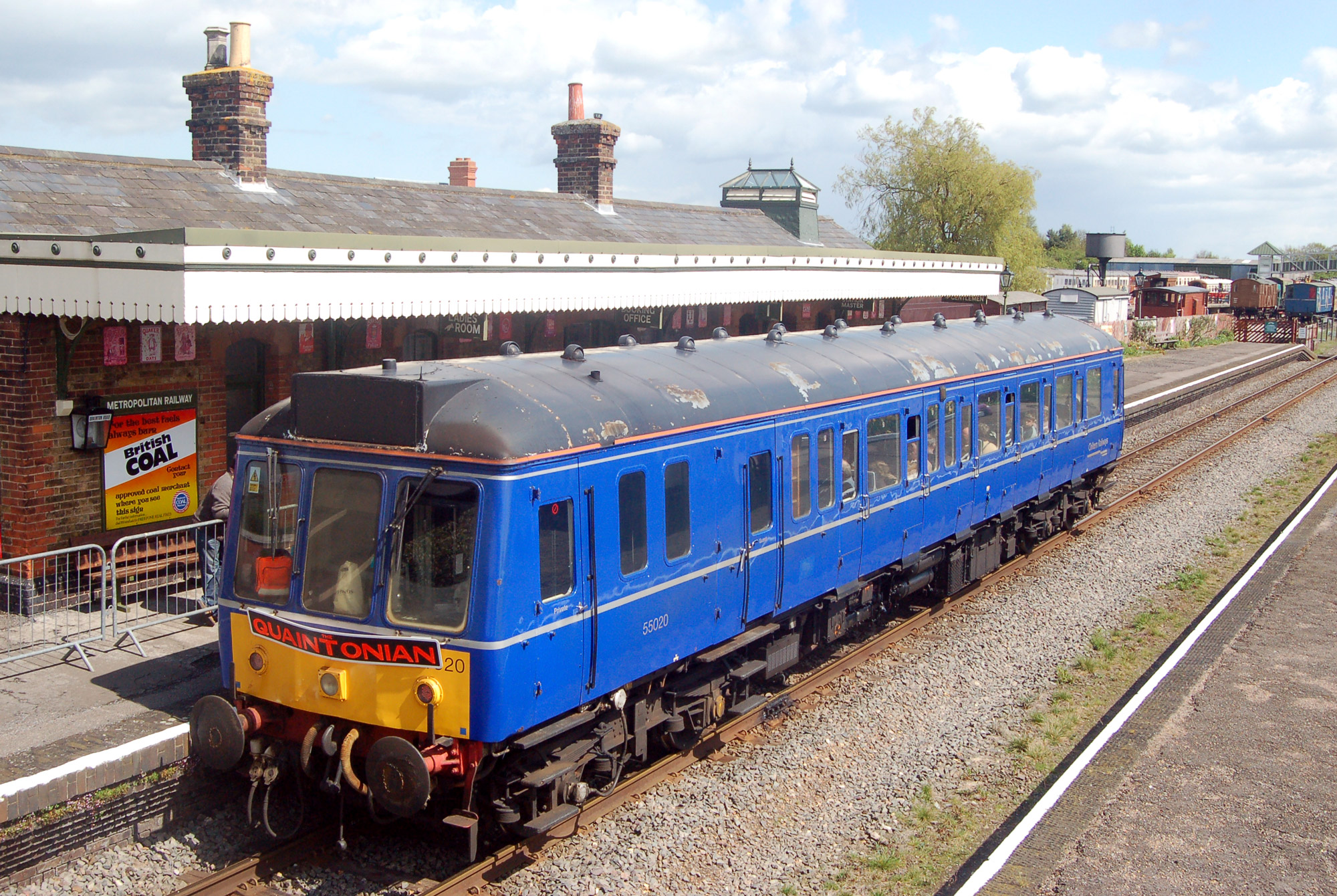 Chiltern Railways Class 121 diesel unit 121 020 stands at Quainton. In 2003, Chiltern Railways refurbished "Heritage" diesel multiple unit 121020 (vehicle 55020) and painted it in Chiltern Railways blue livery. The vehicle is usually employed on the Aylesbury to Princes Risborough shuttle service. It is also used on special services visiting open days at the Buckinghamshire Railway Centre, Quainton.